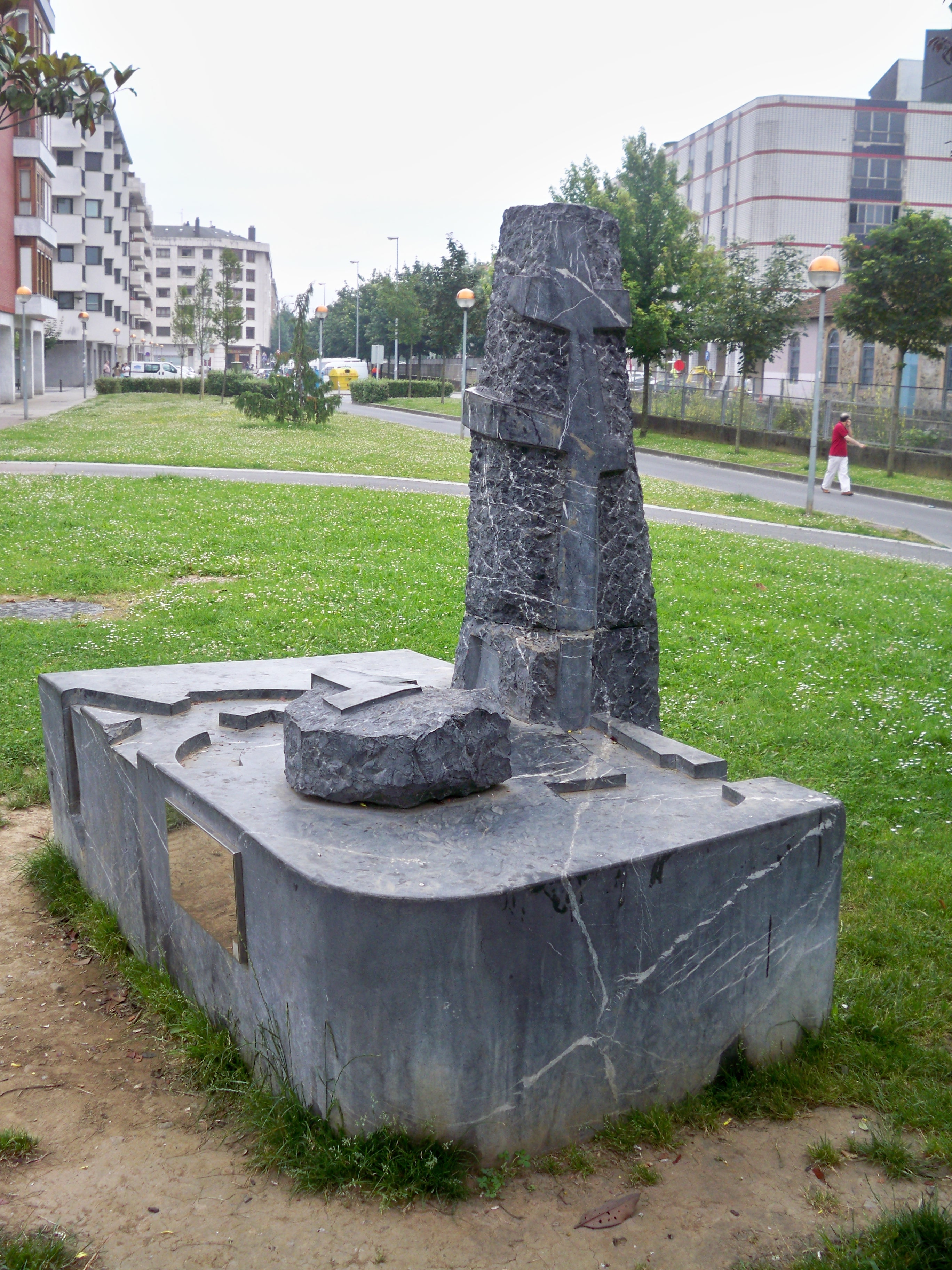 Memorial to gay people persecuted under Francoist (side view) at Durango, Biscay, Spain.